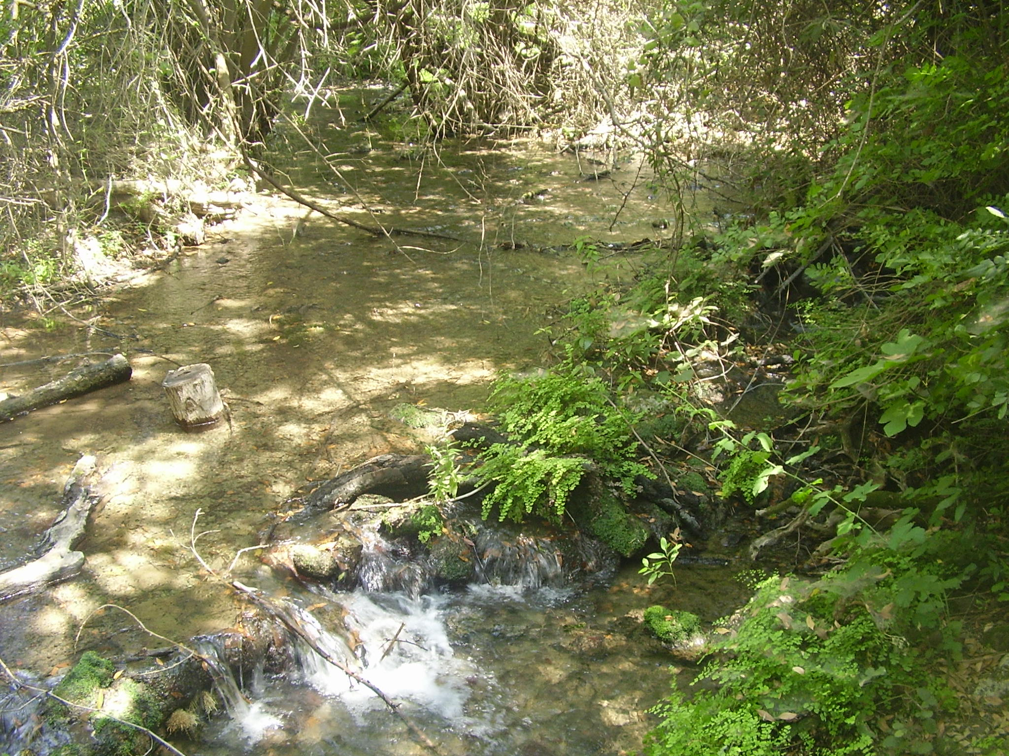 Dan River (Israel)